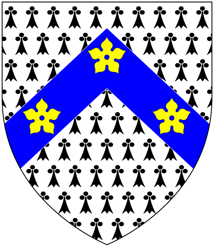 Arms of Moore of Moore Hays in the parish of Cullompton, Devon: Ermine, on a chevron azure three cinquefoils or (Vivian, Lt.Col. J.L., (Ed.) The Visitations of the County of Devon: Comprising the Heralds' Visitations of 1531, 1564 & 1620, Exeter, 1895, p.572)